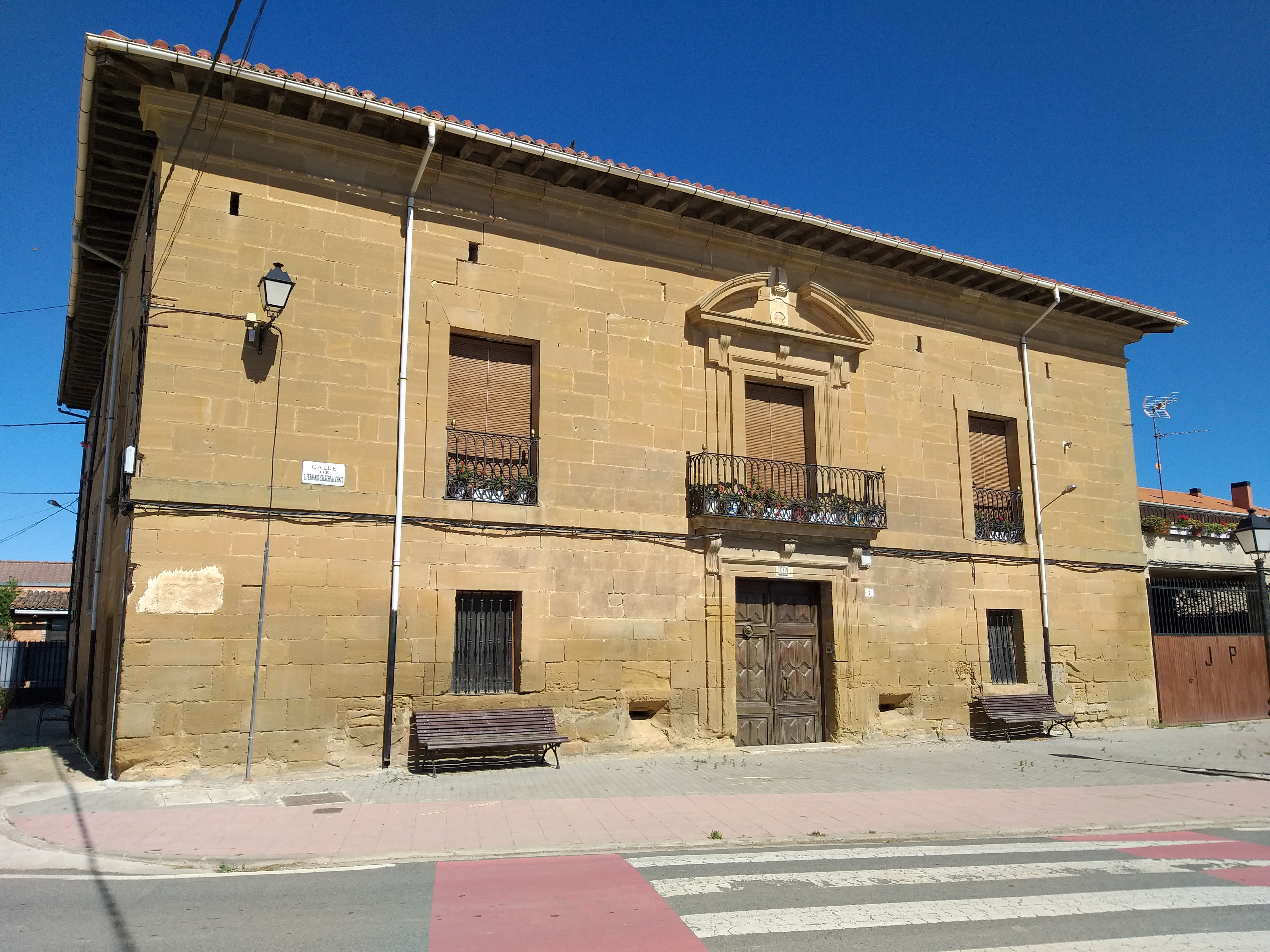 House-Palace from the 17th - 18th century, located in Fernando Salazar del Campo Street, Rodezno, La Rioja, Spain.